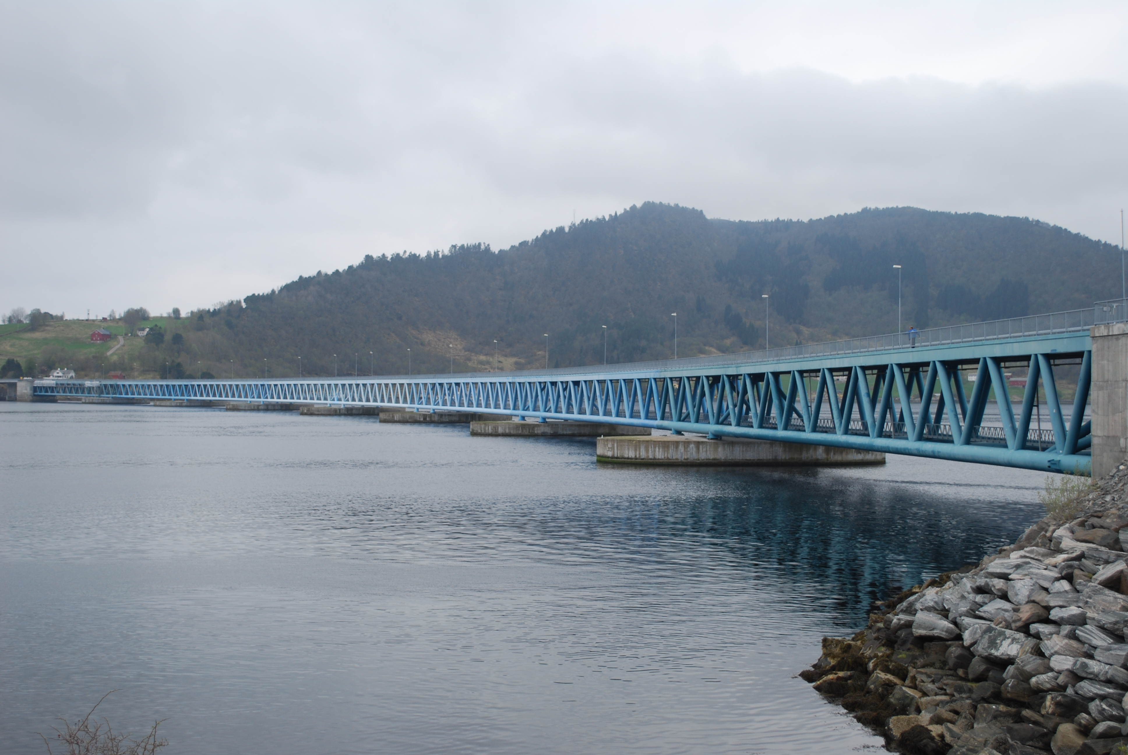 Bergsøysund Bridge is a road bridge on European route E39 in Møre og Romsdal county (fylke), Norway.